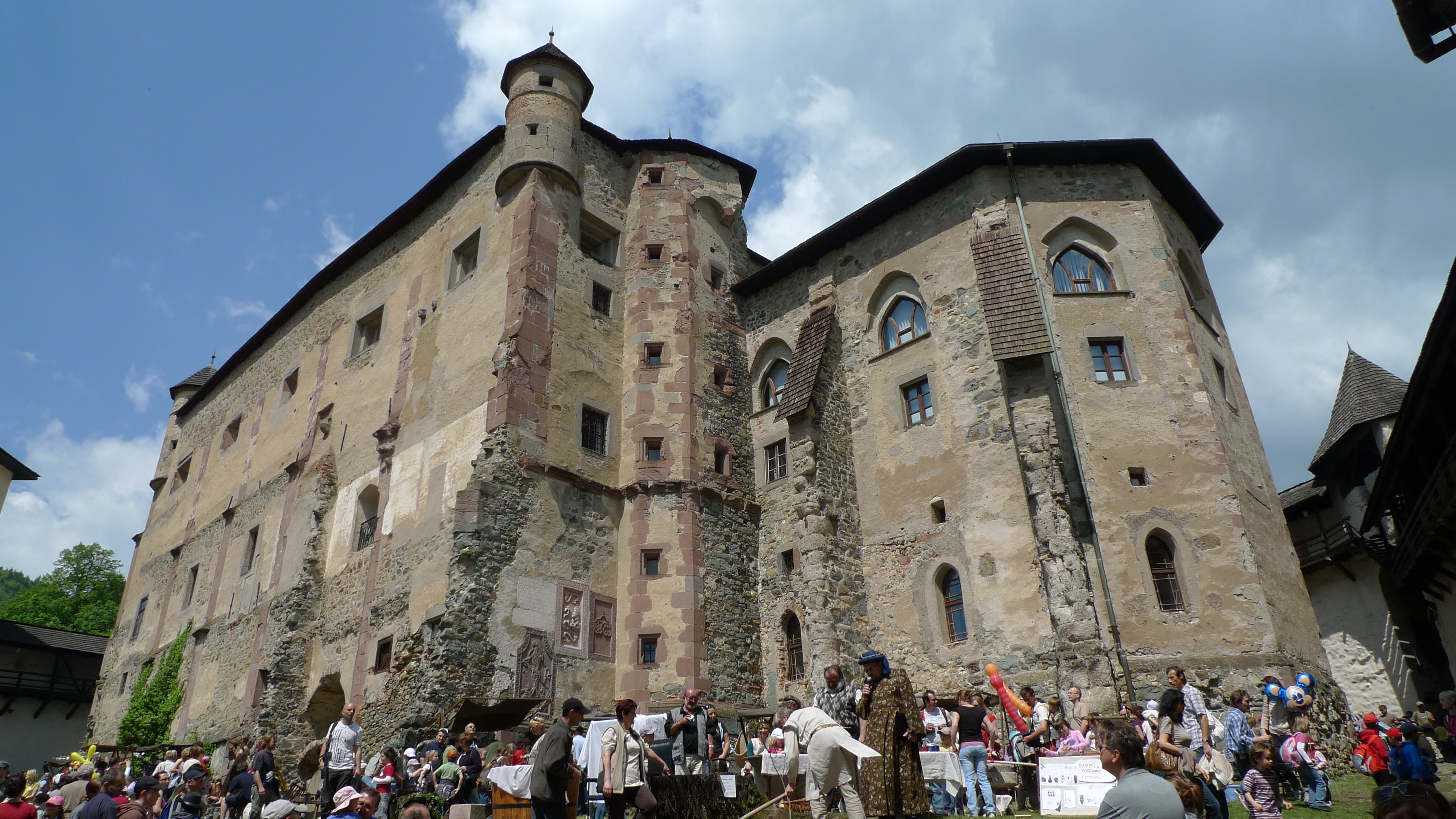 Curtyard of Old castle